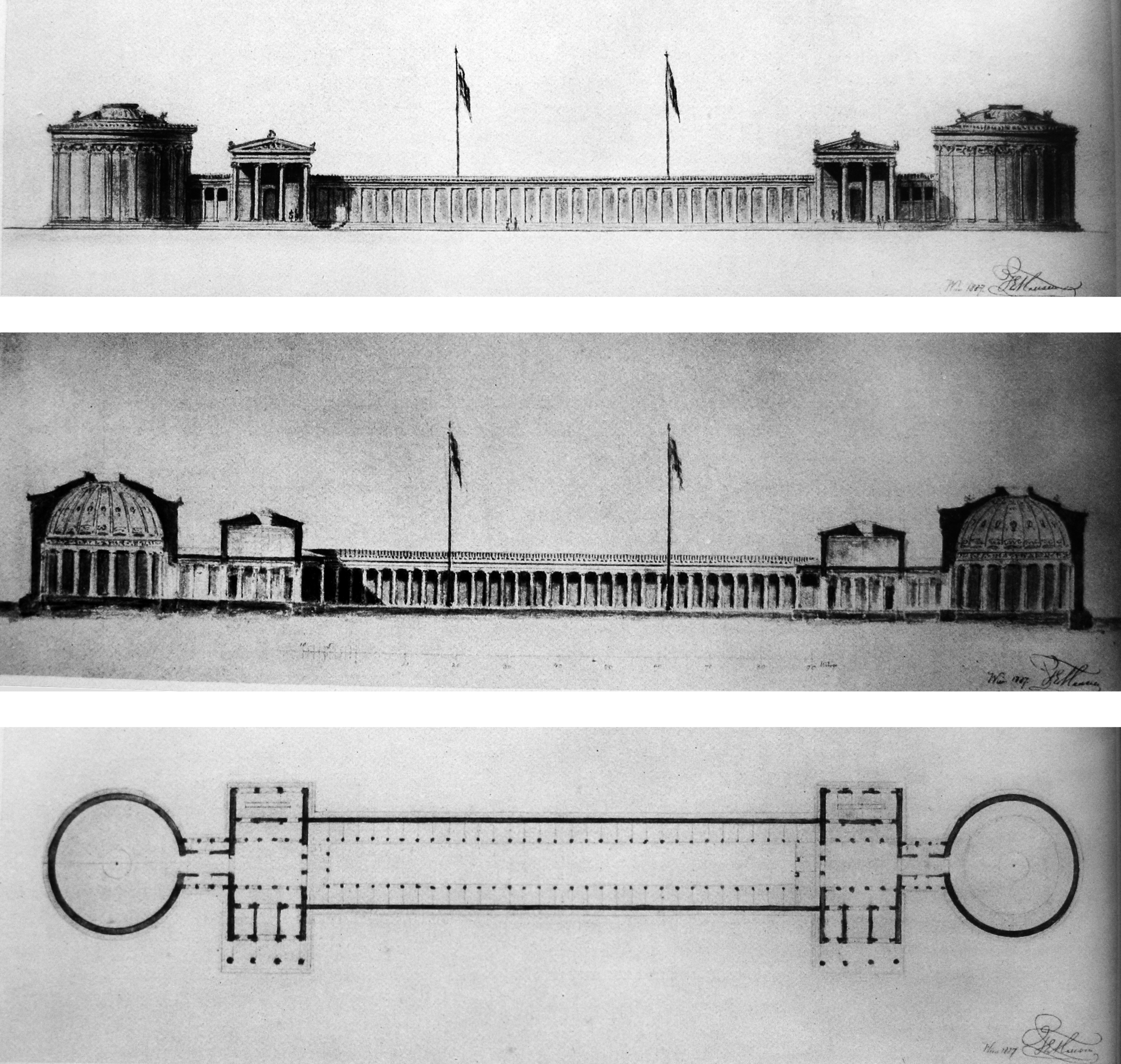 Sketches of Theophil Hansen of a Museum between the two theatres in front of the Acropolis